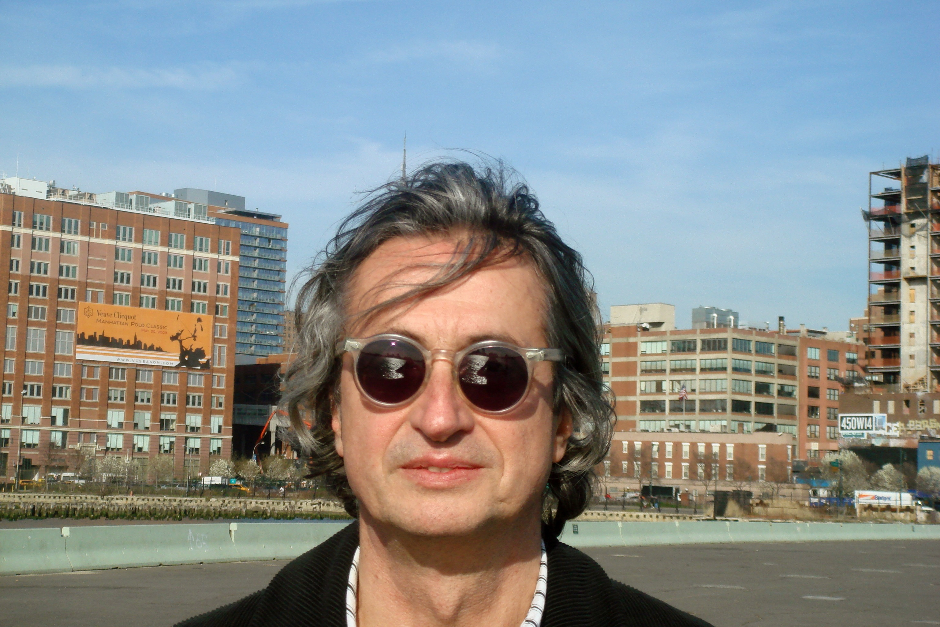 photo of Luis Ospina